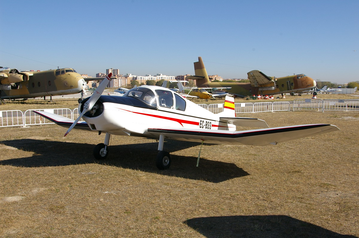 Jodel Compostela D1190-S, Reg. EC-BSS, Madrid-Cuatro Vientos Airport. The aircraft was built by Aerodifusion, 11/1969, construction № E.121